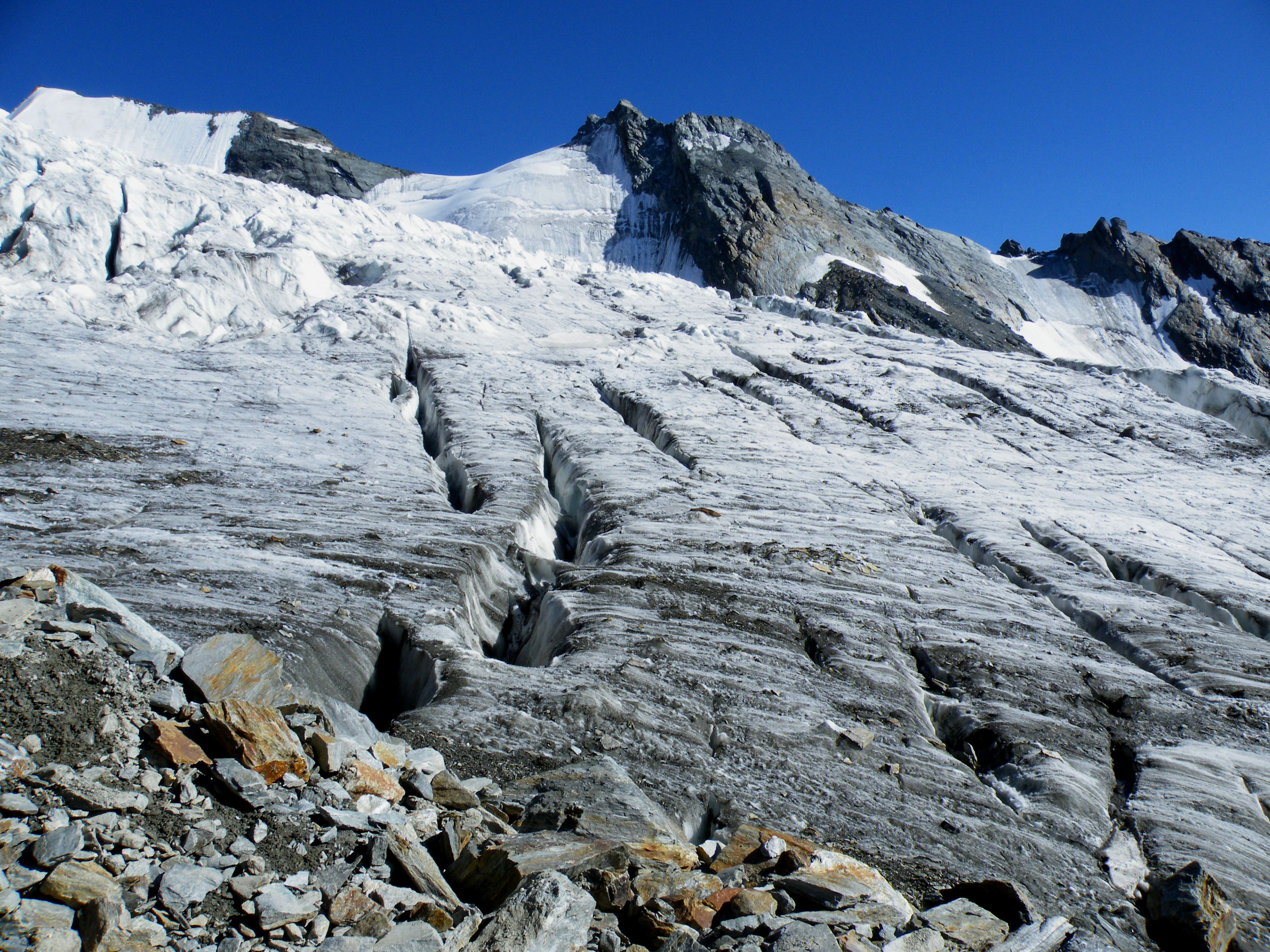 Festigletscher glacier at the west side of the Dom. View from the end of the trail above the Dom hut (normal route to the Dom).